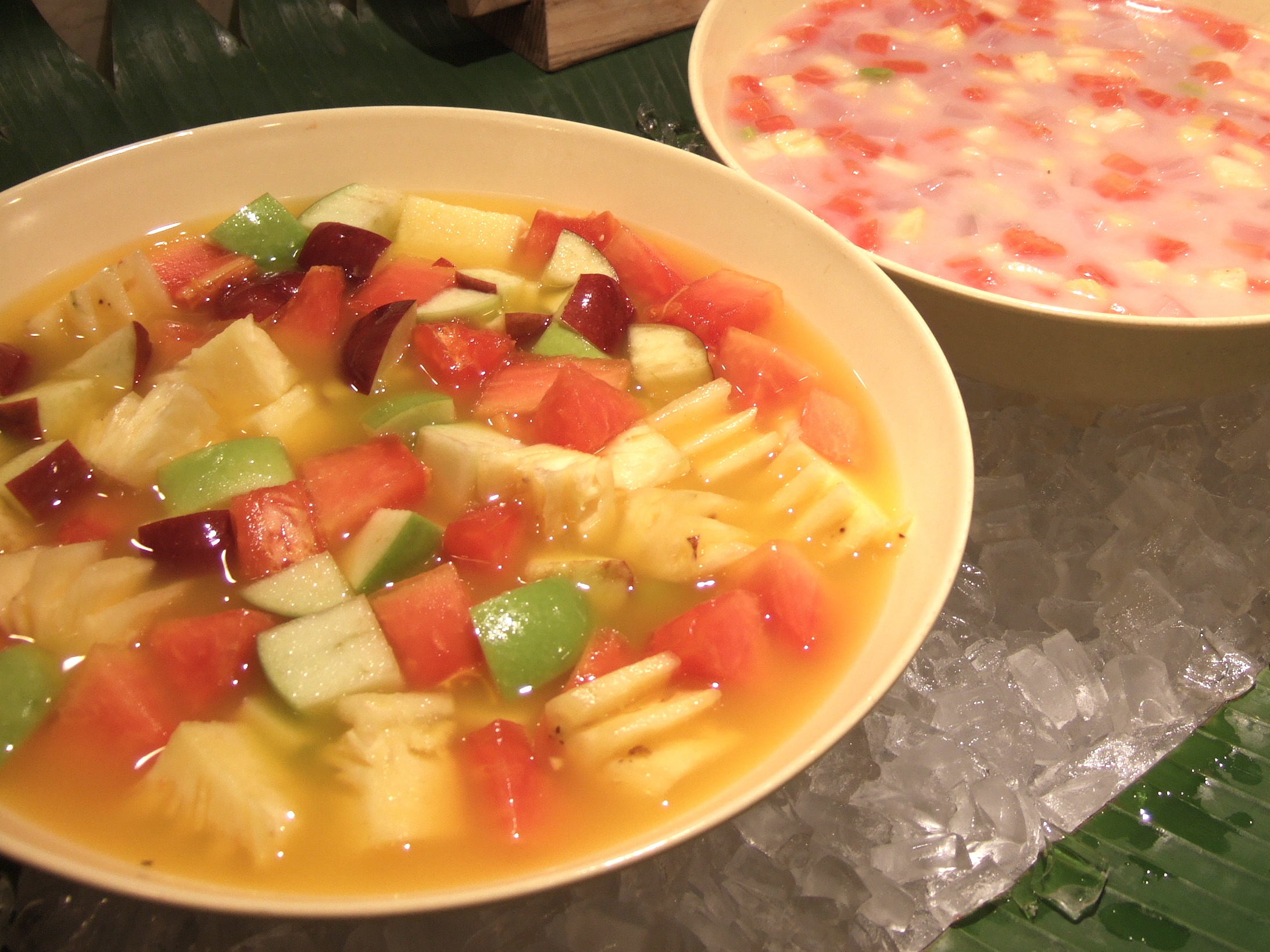 Fruit cocktail, Manado, Indonesia